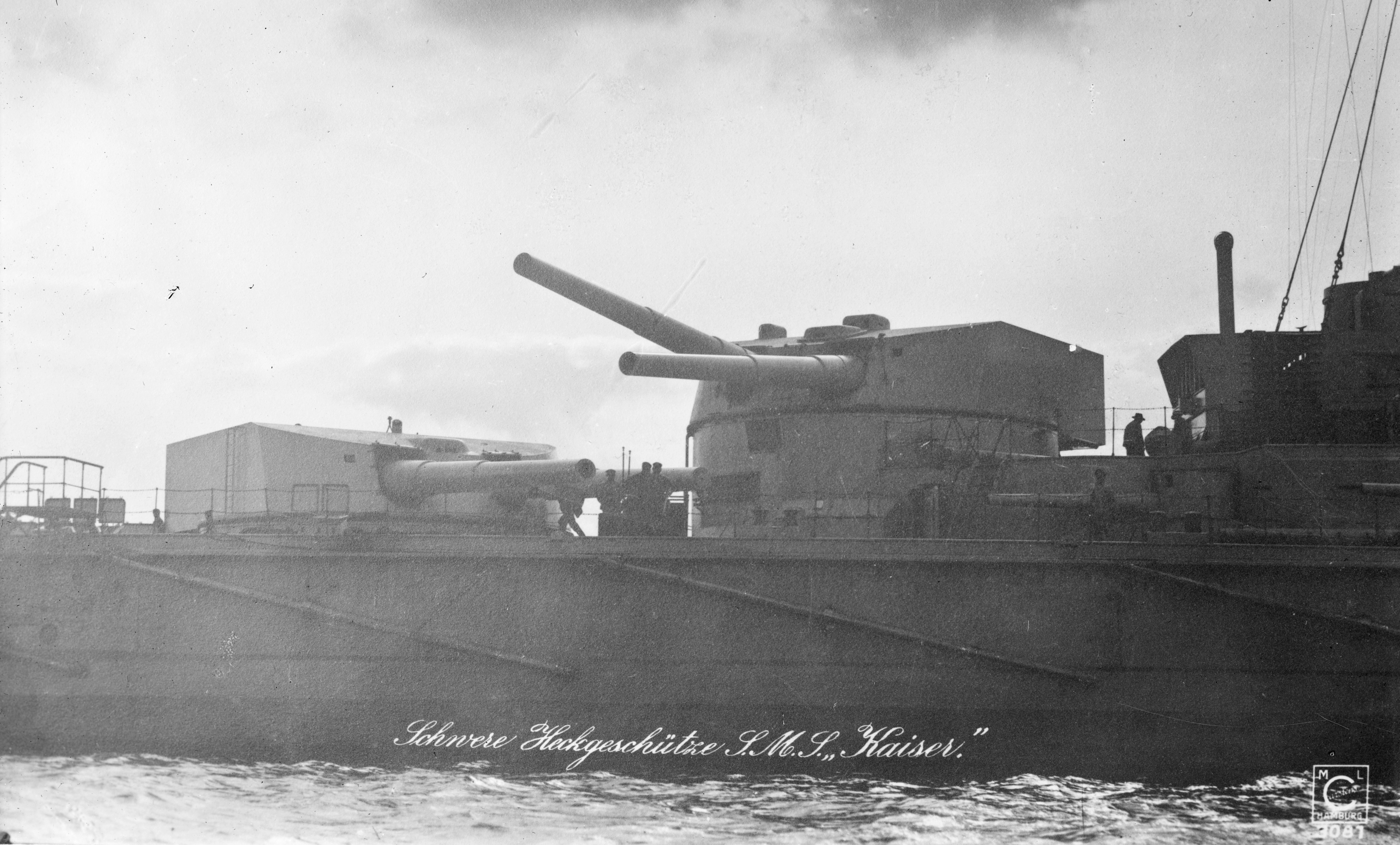 View of the aft 30.5 cm turrets of the German battleship SMS Kaiser, 1913-14.